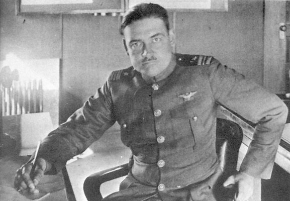 W. Spencer